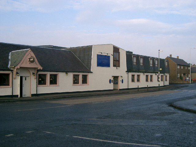 The Halfway House Hotel. Situated in the village of Kingseat halfway between Dunfermline and Kelty.